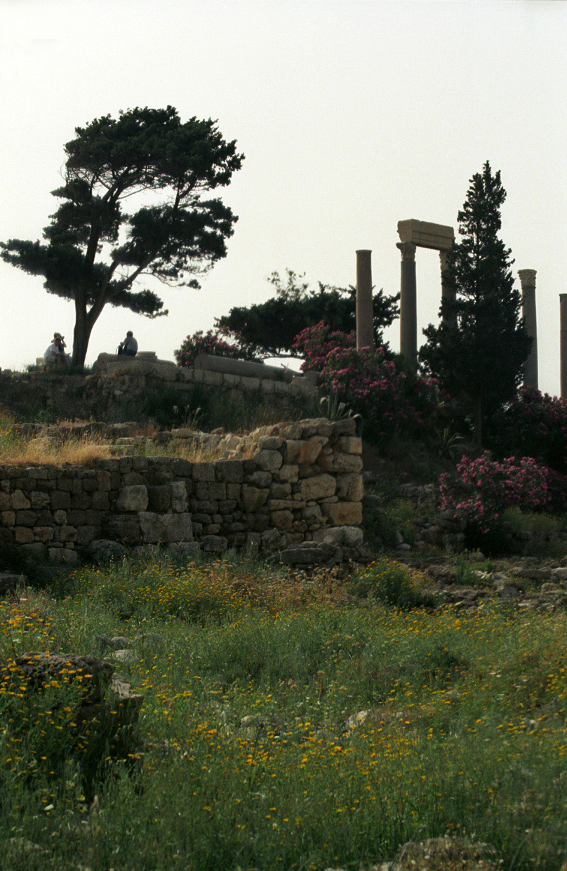 Byblos, Temple of Baalat Gebal